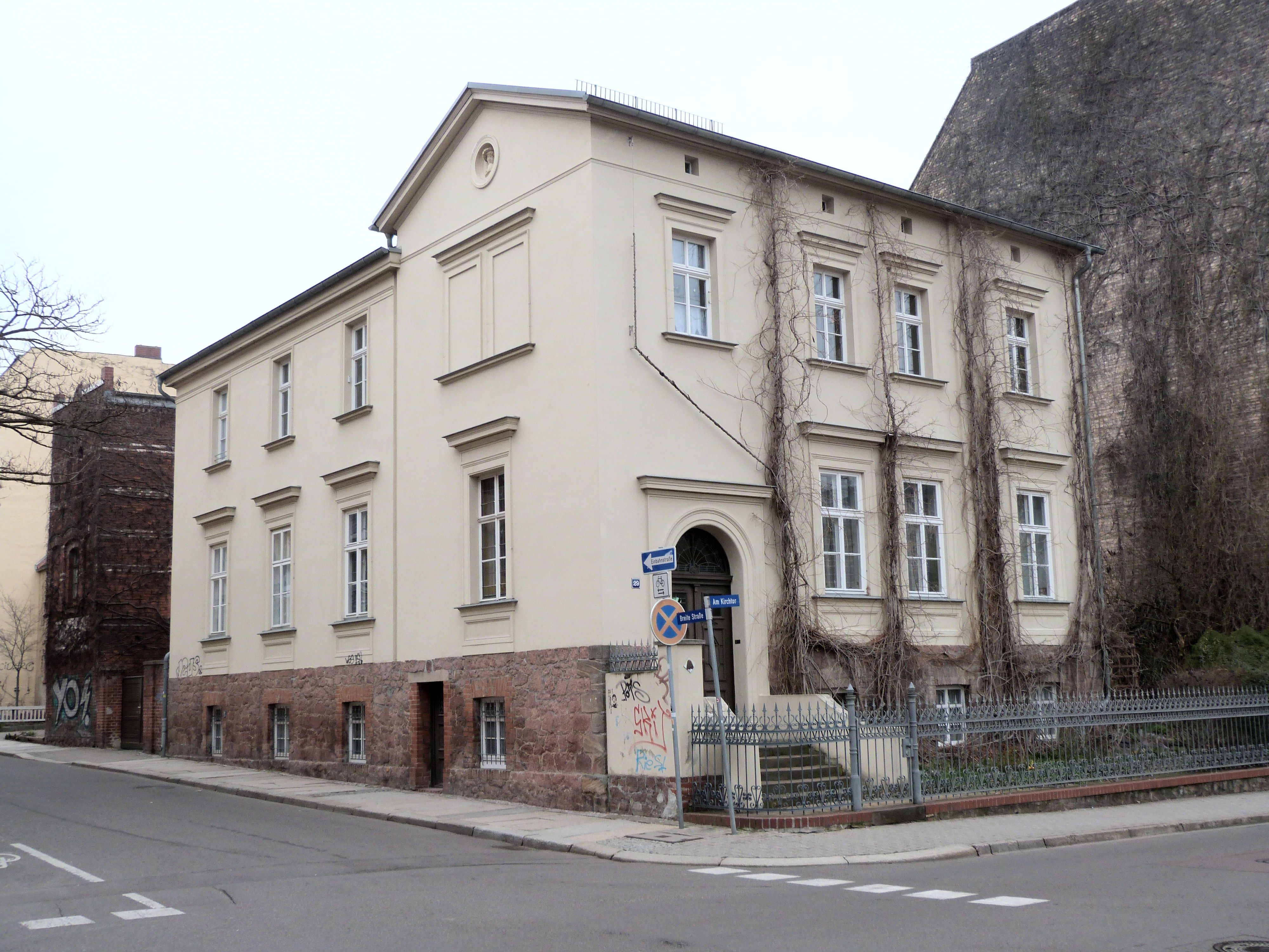 Villa Roß in the Street Am Kirchtor No. 29, Halle (Saale)